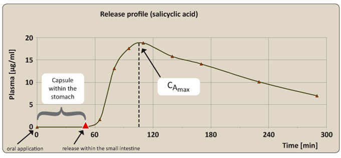 Drug release profile